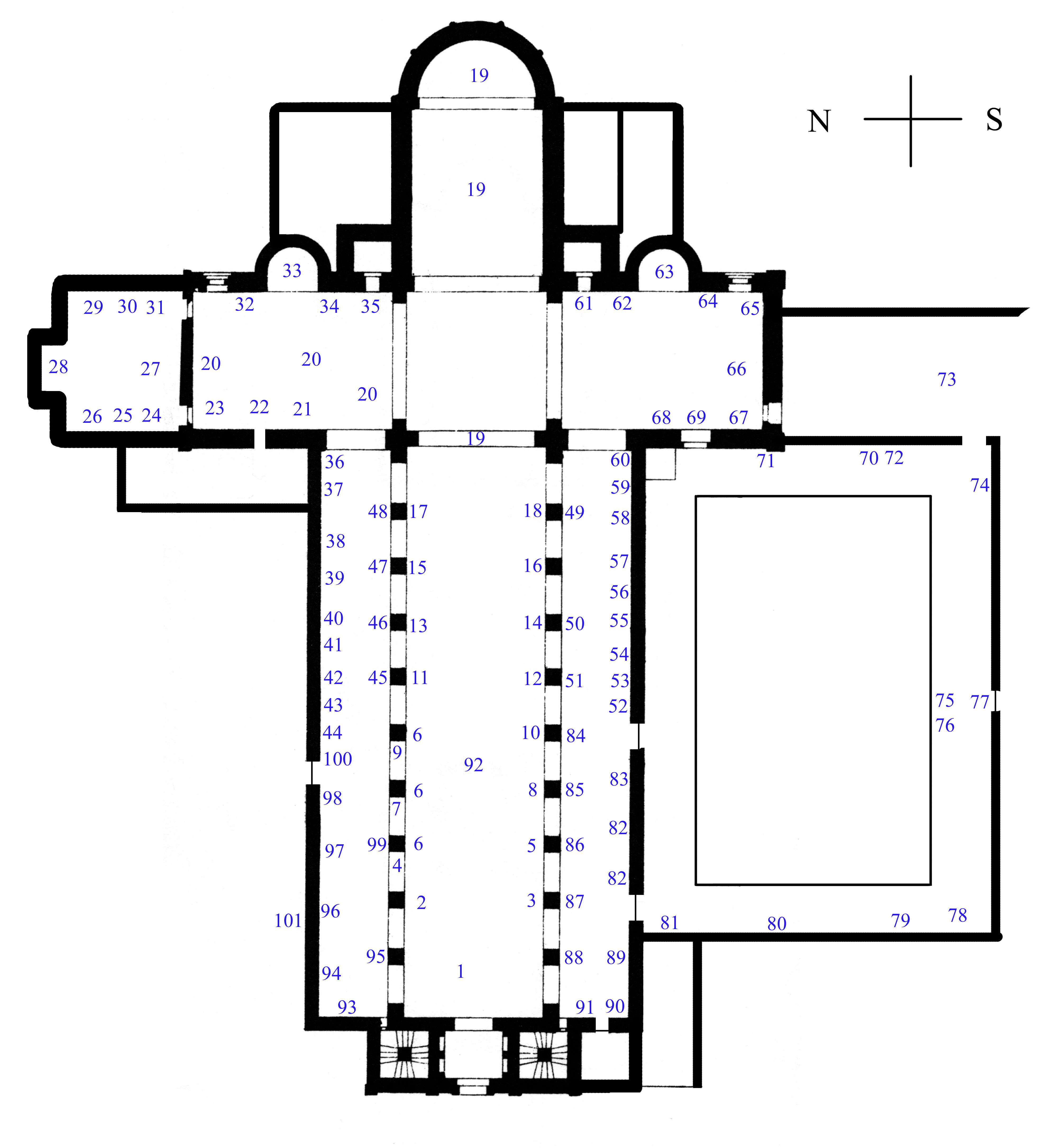 floor plan of Wuerzburg cathedral with numbers by significant items based on information in Rudolf Kuhn book Wuerzburg Dom und Neumuenster